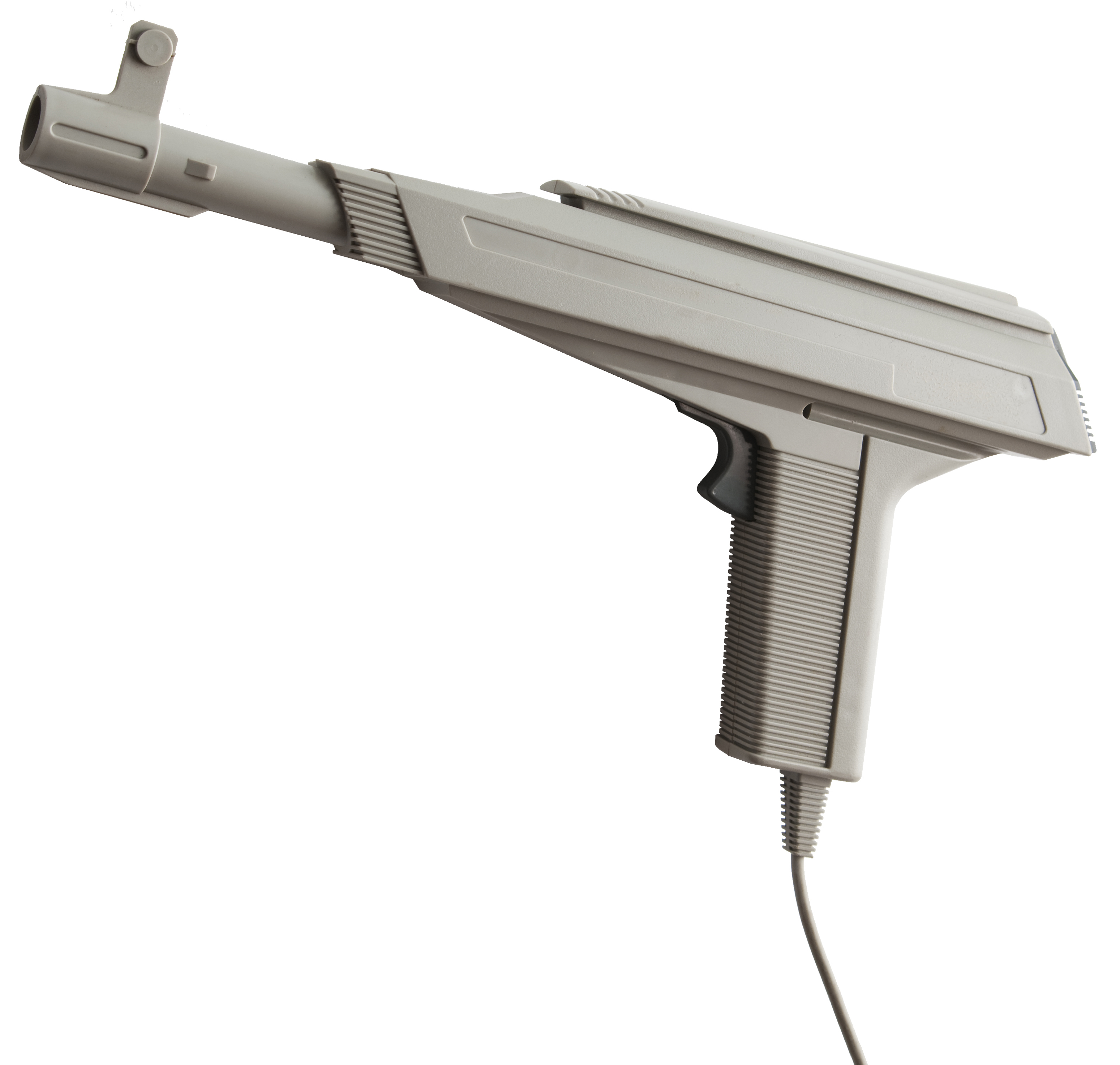 Atari XG-1 light gun, the first model light gun they produced. Originally designed for the Atari XE Game System (XEGS), it was also compatible with the Atari 7800.